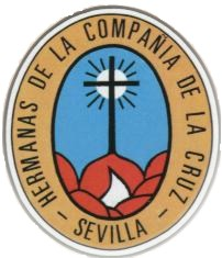 Emblem of the congregations of Sisters of the COmpany of the Cross, from a print, ca. 1900